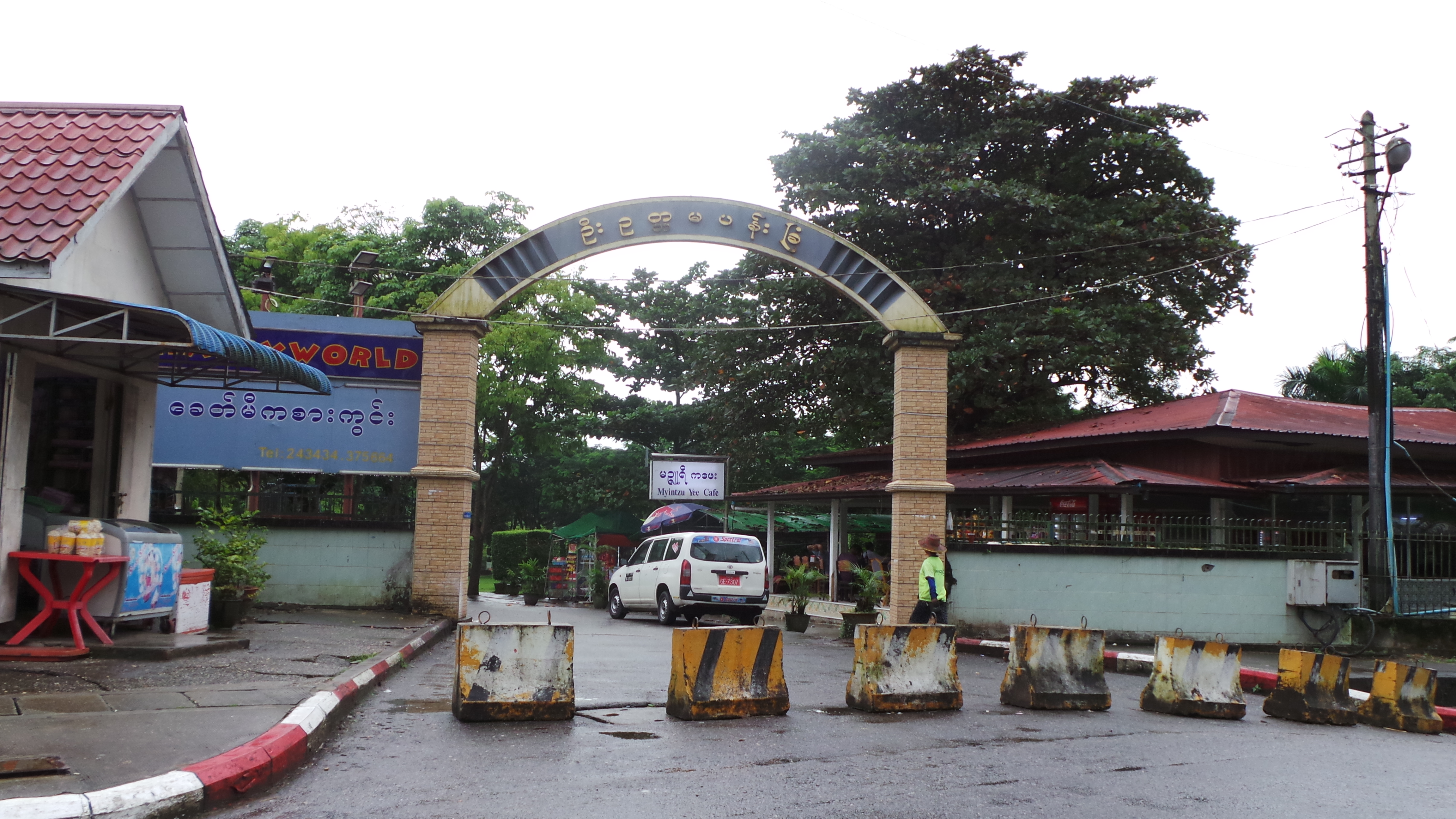 U Ottama Park Gate, (Kan Taw Mingalar Garden), front of Shwedagon Pagoda South Gate မြန်မာဘာသာ: ရန်ကုန်မြို့၊ ရွှေတိဂုံဘုရားလမ်း တောင်ဘက်ခြေရင်းရှိ ဦးဥတ္တမပန်းခြံ (ကန်တော်မင်္ဂလာပန်းခြံ)